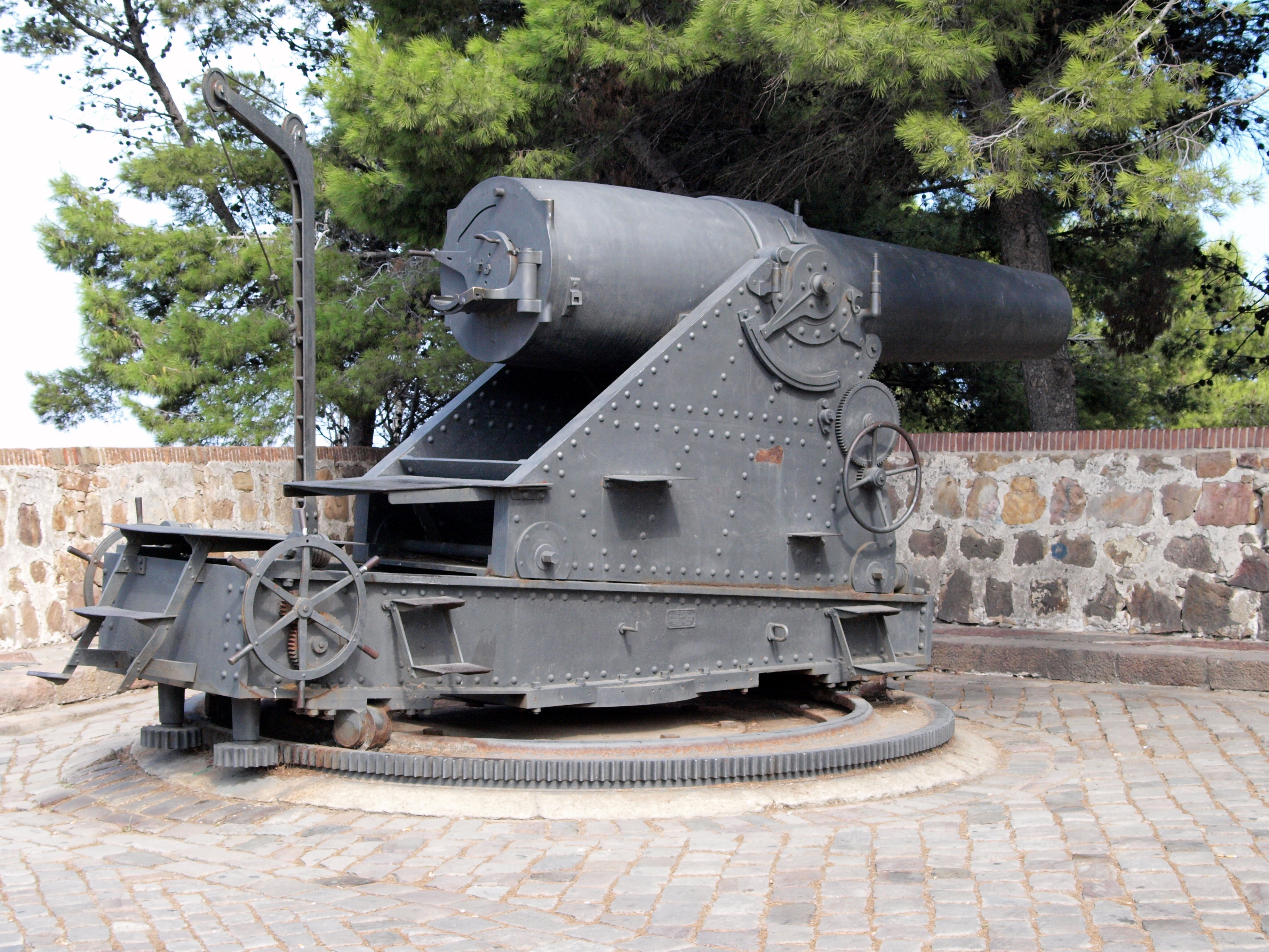 30.5 cm Model 1891 Coastal defence-cannon from the fortress on top of Montjuic, Barcelona